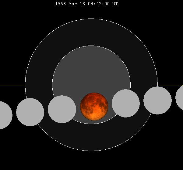 April 1968 lunar eclipse chart of moon's total lunar eclipse path through the earth's shadow. thumb